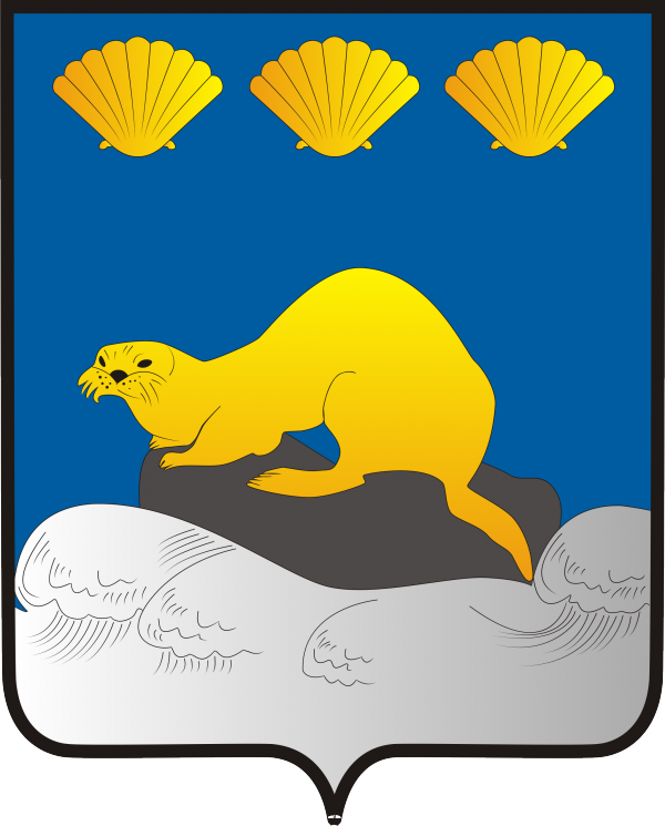 Severo-Kurilsk rayon (Sakhalin oblast), coat of arms